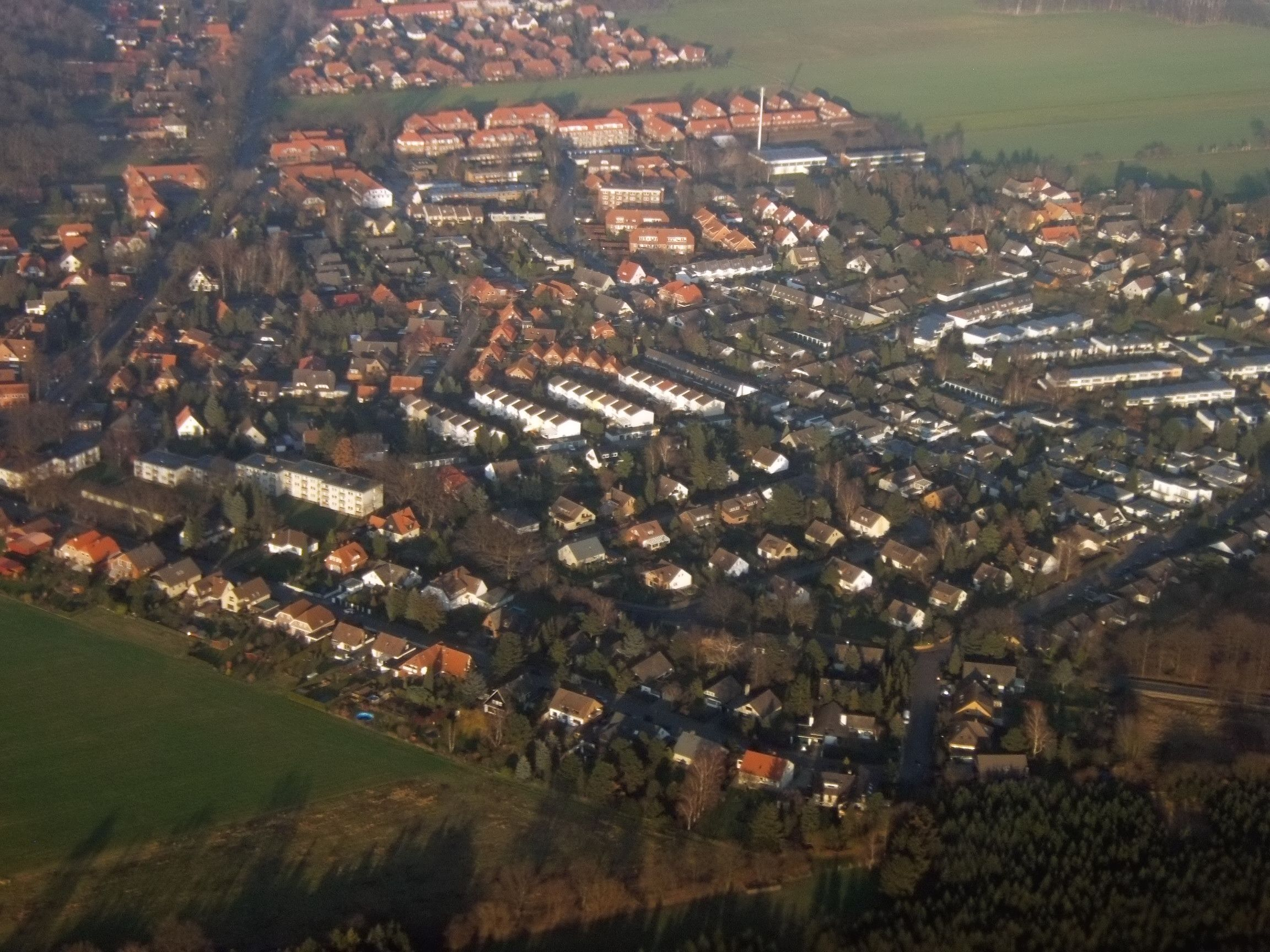 Hohenhorster Bauerschaft, part of Isernhagen, Germany picture taken from an airplane that was about to land at Hanover Airport